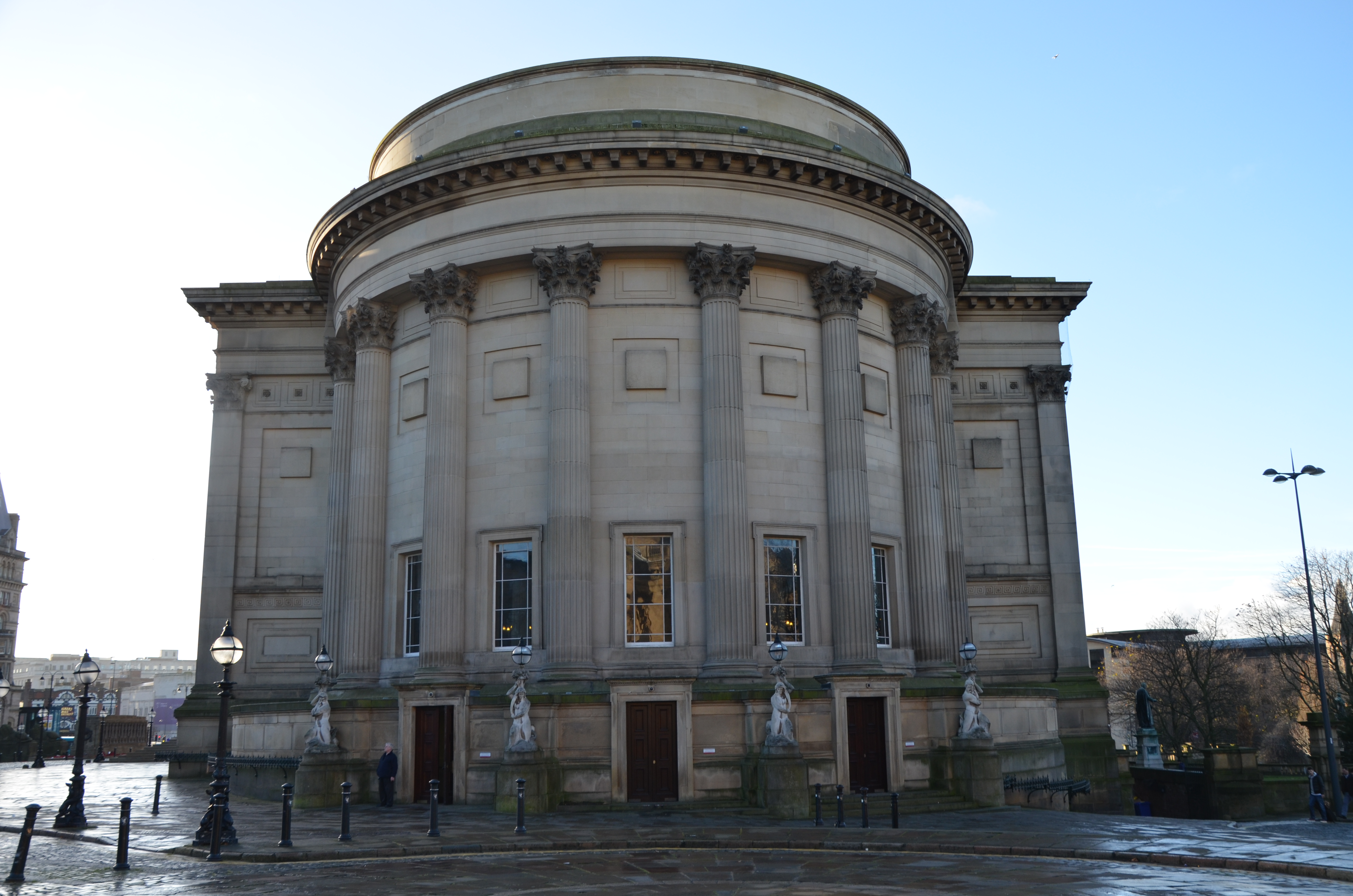 Neoclassical building in Liverpool